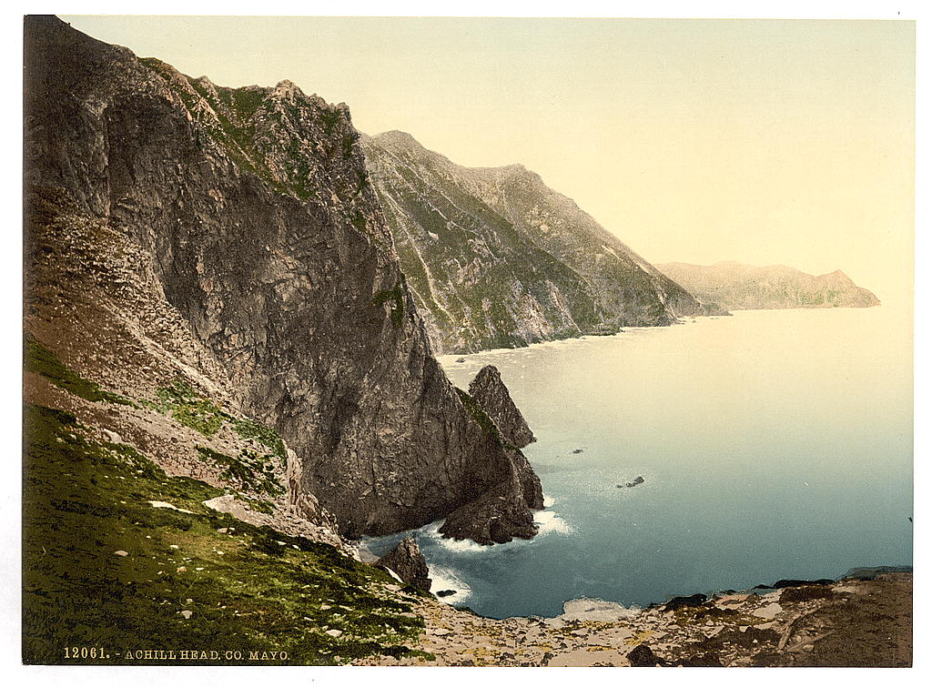 [Achill Head. County Mayo, Ireland] [between ca. 1890 and ca. 1900]. 1 photomechanical print : photochrom, color. Notes: Title from the Detroit Publishing Co., catalogue J--foreign section. Detroit, Mich. : Detroit Photographic Company, 1905.. Print no. "12061". Forms part of: Views of Ireland in the Photochrom print collection. Subjects: Ireland--County Mayo. Format: Photochrom prints--Color--1890-1900. Repository: Library of Congress, Prints and Photographs Division, Washington, D.C. 20540 USA, Part Of: Views of Ireland (DLC) 2001700656 More information about the Photochrom Print Collection is available at Persistent URL: Call Number: LOT 13406, no. 090 [item] This image is available from the United States Library of Congress's Prints and Photographs division under the digital ID missing.This tag does not indicate the copyright status of the attached work. A normal copyright tag is still required. See Commons:Licensing for more information.